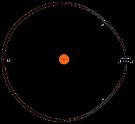 Horseshoe orbits are slow migrations around Lagrange points L4 & L5.